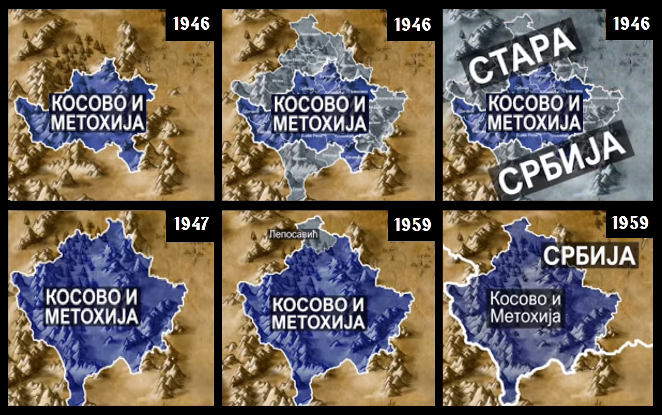 The territory of Kosovo from 1946 to 1959Српски (ћирилица): Територија Kосмета од 1946. до 1959. годинеSrpski (latinica): Teritorija Kosmeta od 1946. do 1959. godine